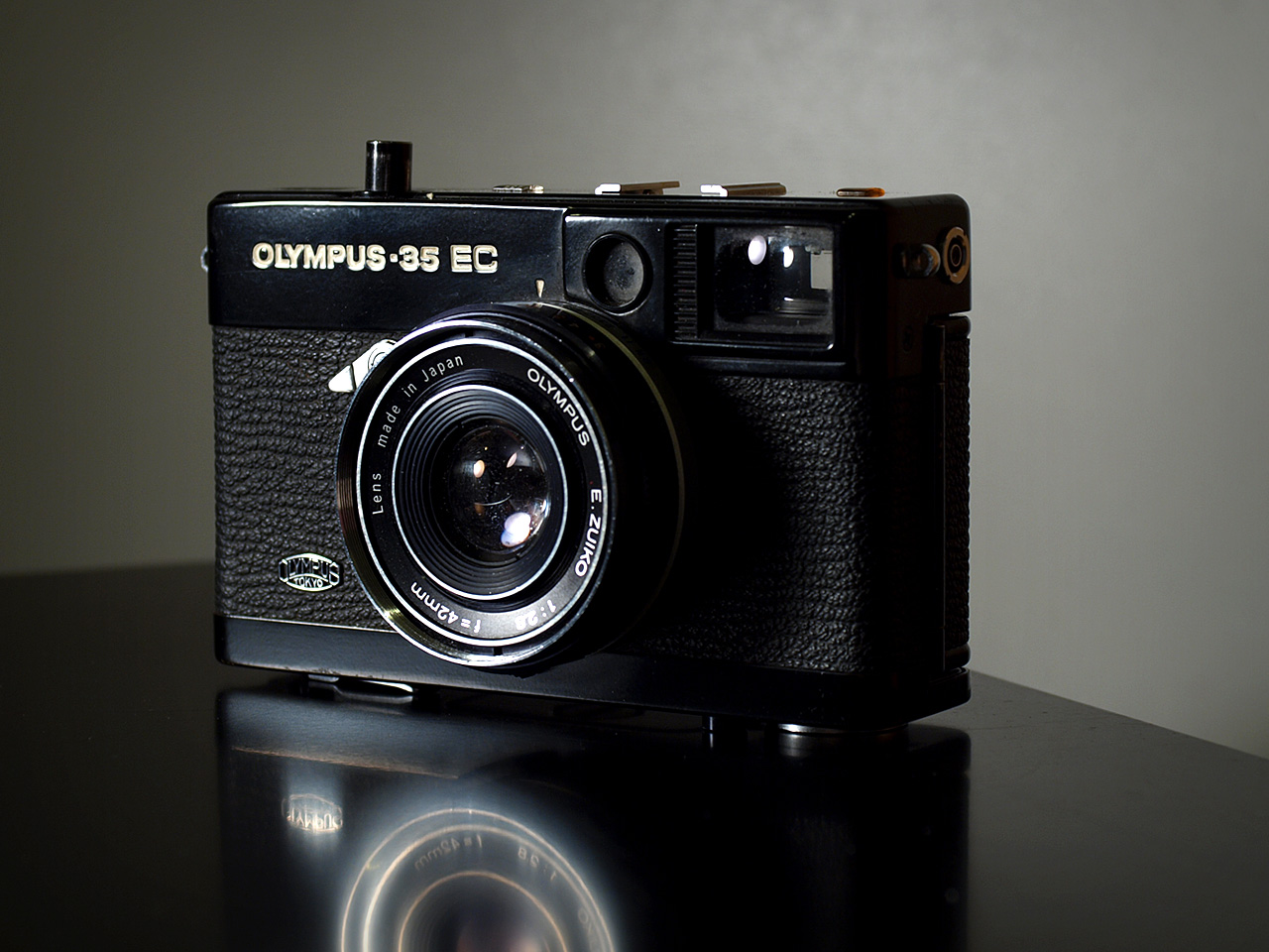 rare in black.